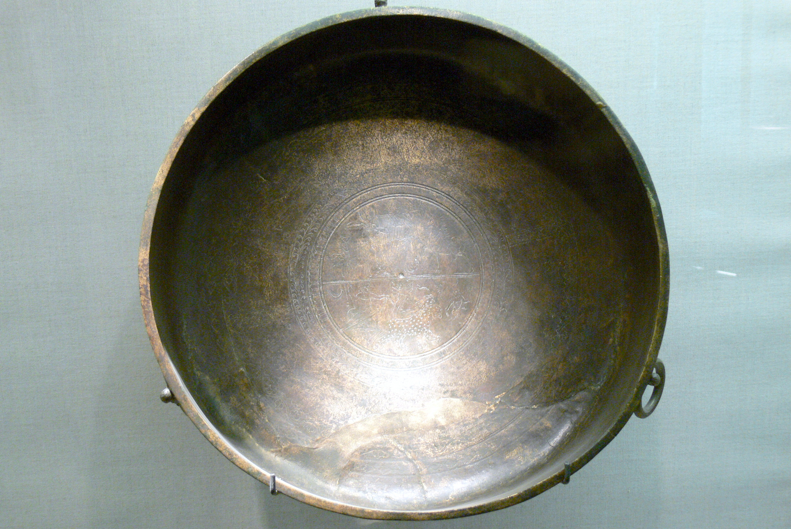 Weißenburg ( Bavaria ). Roman Museum: Bronze bowl with drawing of goddess Epona ( 2nd/3rd century AD ).